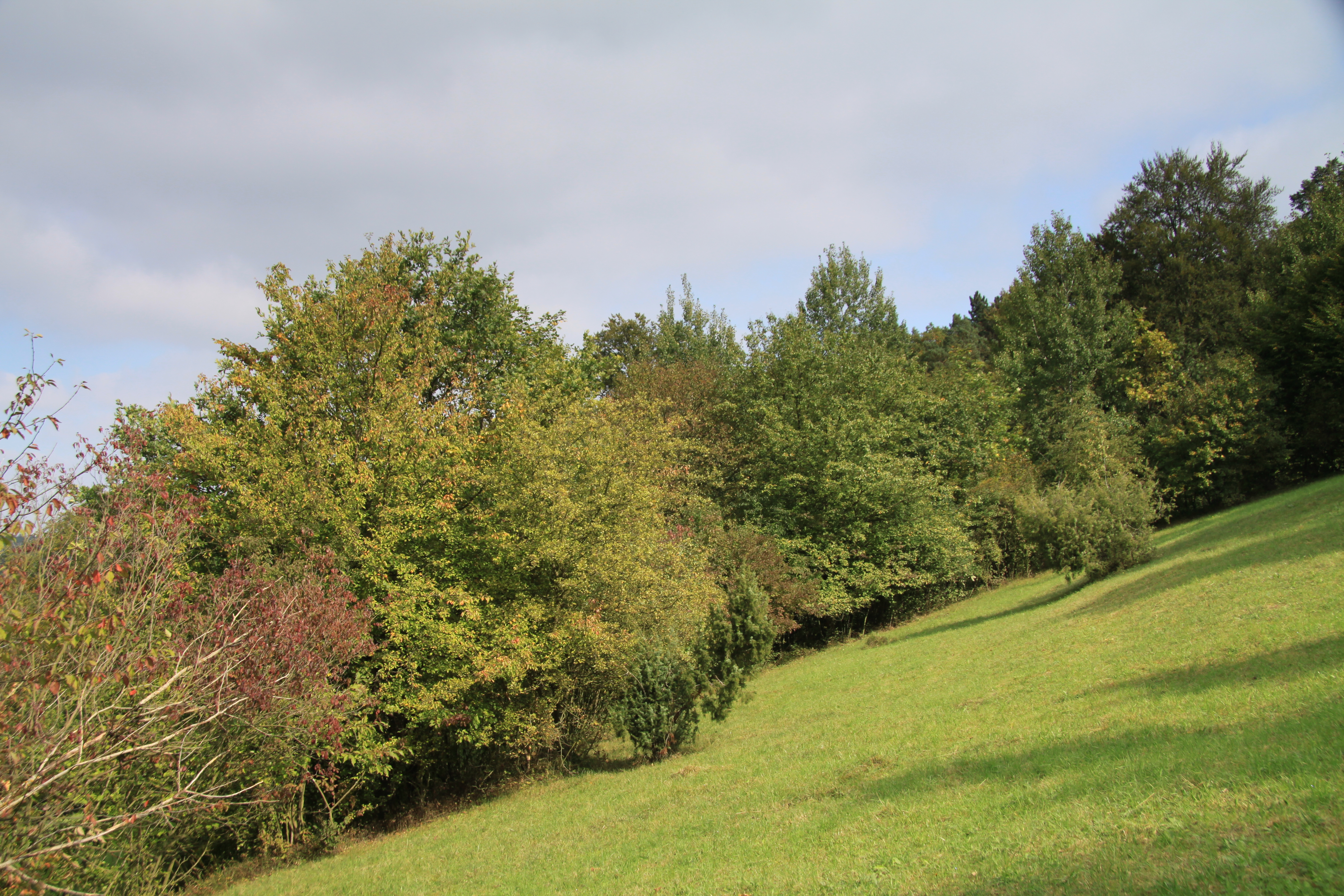 Natural monument Branžovy near Loděnice village, Beroun District, Czech Republic Project: Chráněná území.